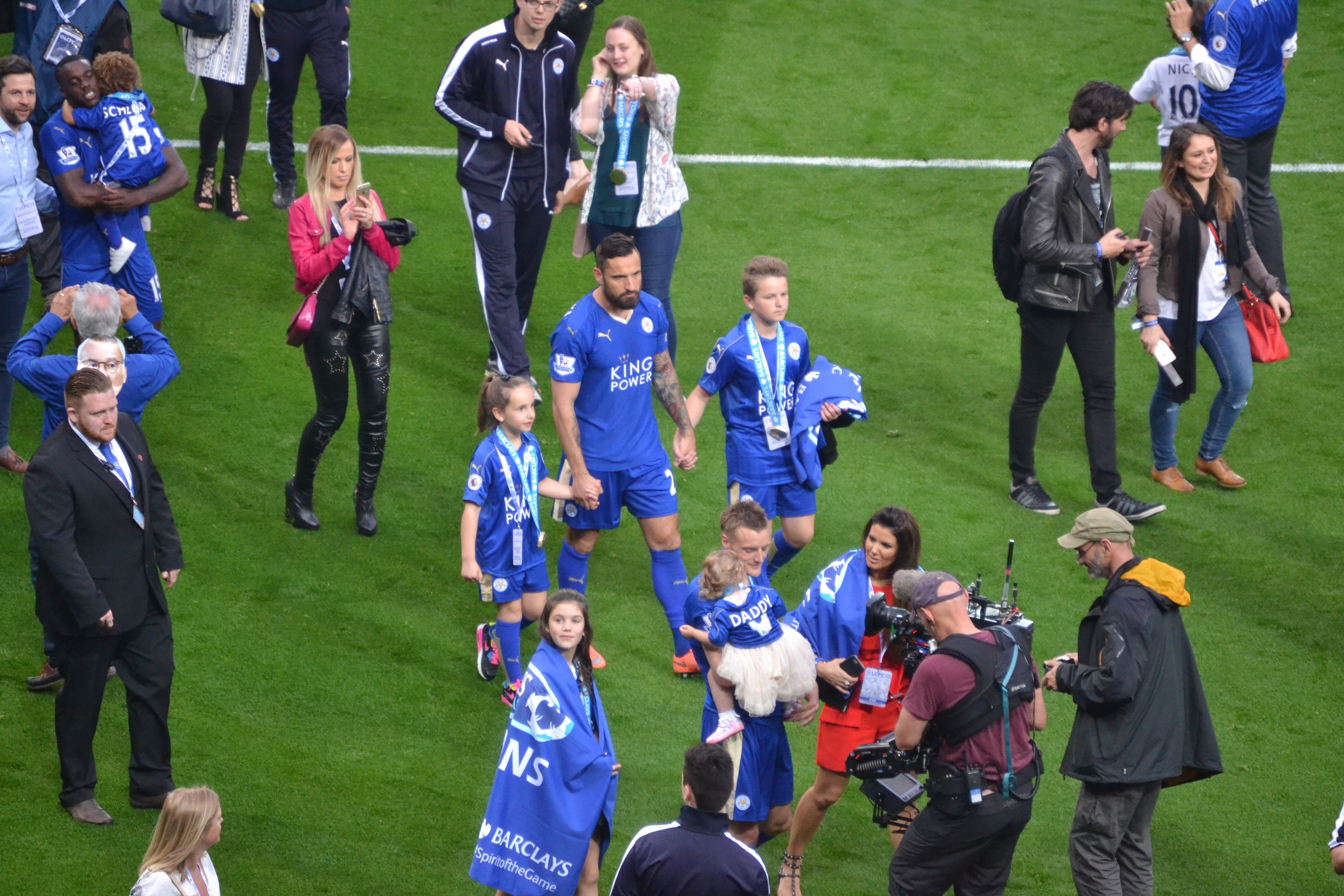 LCFC players celebrate after victory vs Everton